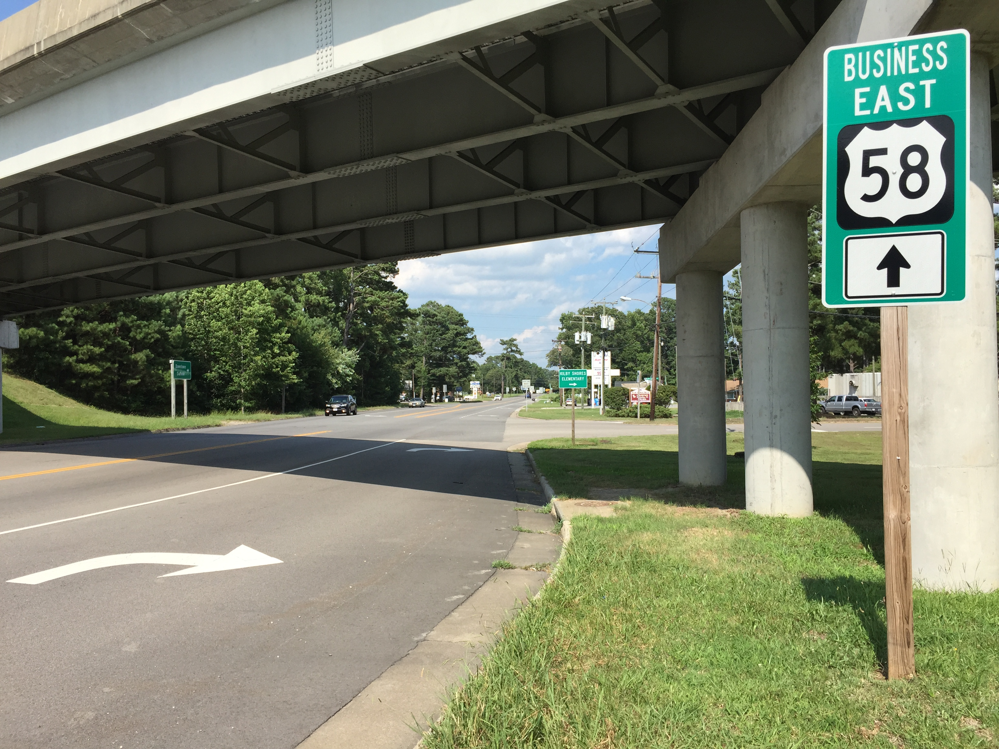 View east along U.S. Route 58 Business (Holland Road) at U.S. Route 13 and U.S. Route 58 in Suffolk, Virginia